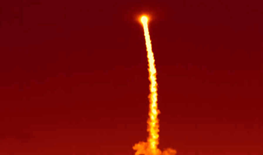 An infrared image of the launch of NASA's Wide-field Infrared Survey Explorer, or WISE, on Dec. 14, 2009 from Vandenberg Air Force Base